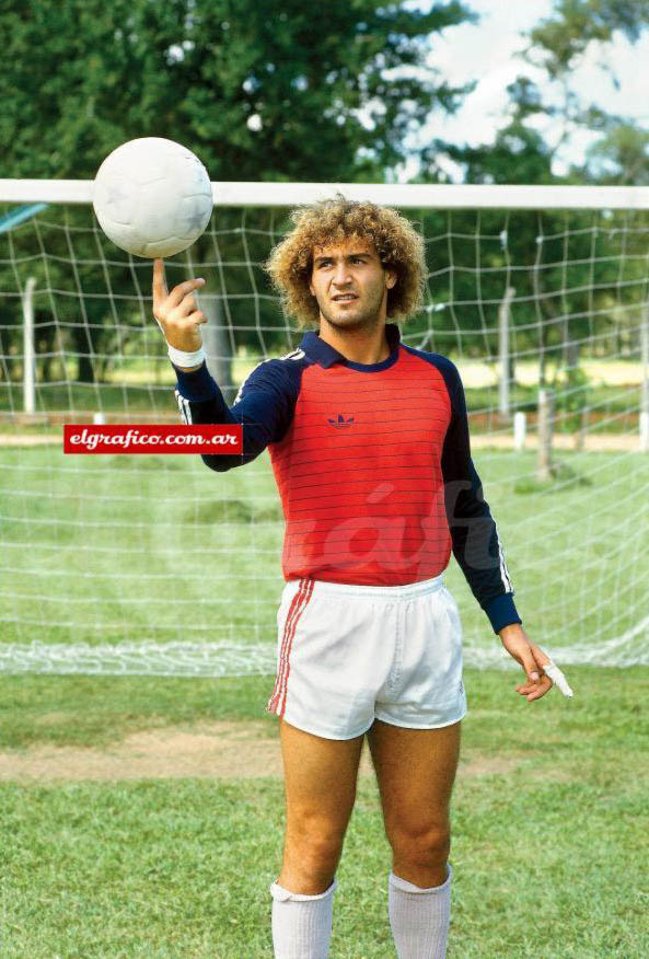 Argentine goalkeeper Luis Islas while playing for Estudiantes LP